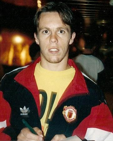 Russell Beardsmore, former Man. United player.